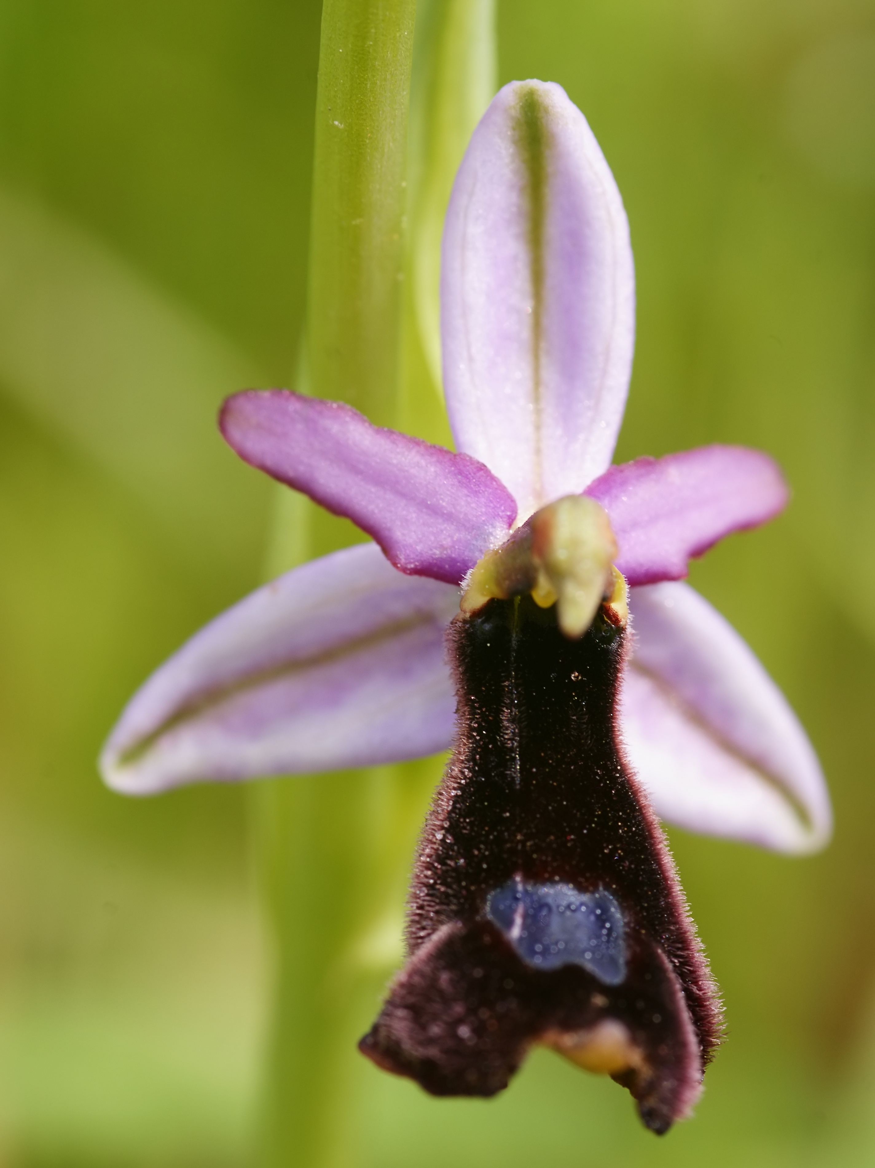 Balearic orchid near Son Serra, Mallorca, Spain (location within 1.5 km).